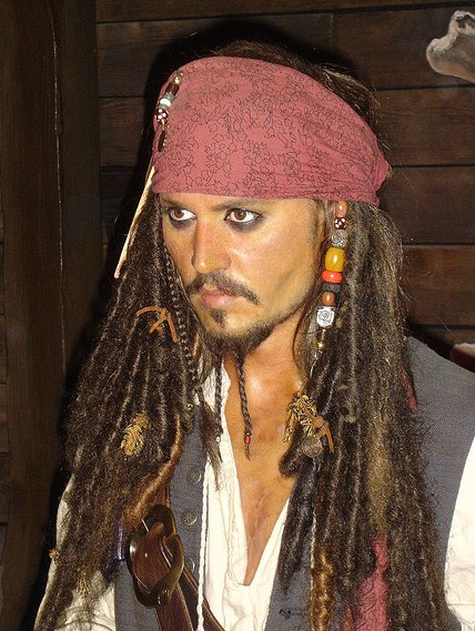 Johnny Depp as Captian Jack Sparrow in Madame Tusauds in London, taken in June 2007.